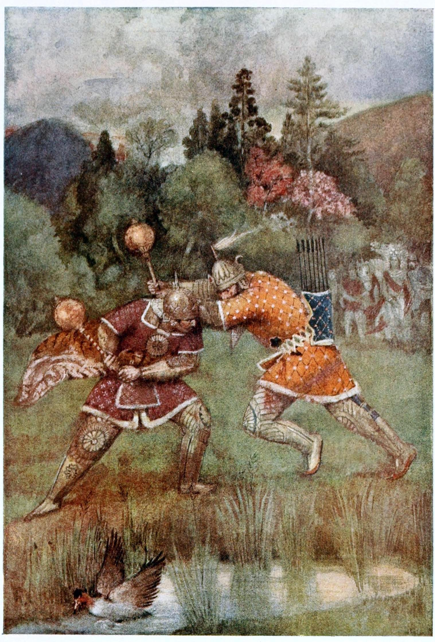 Illustration on page 216 of W.D. Monro's Stories of India's gods & heroes.